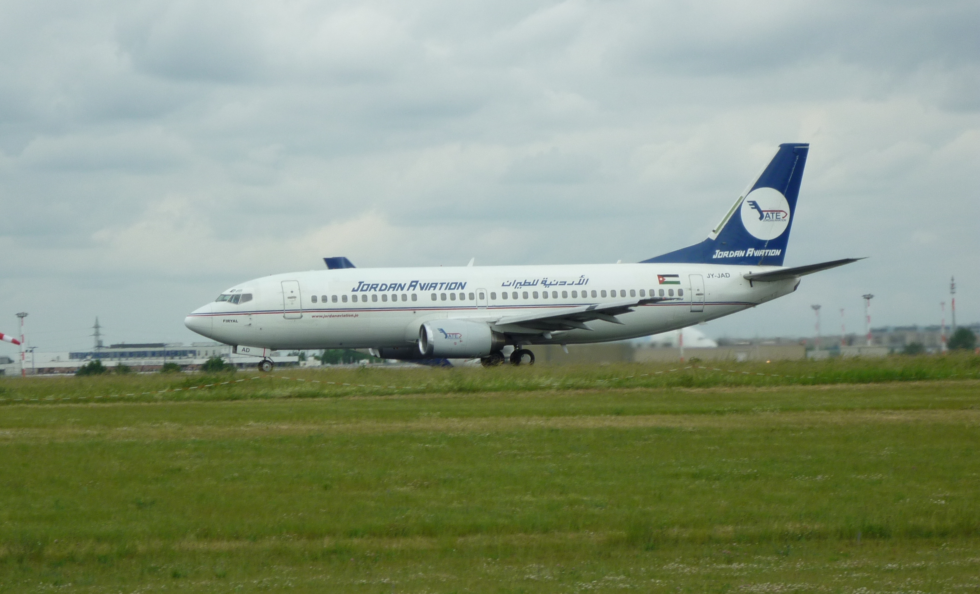 Jordan Aviation Boeing 737-400 JY-JAD at SXF